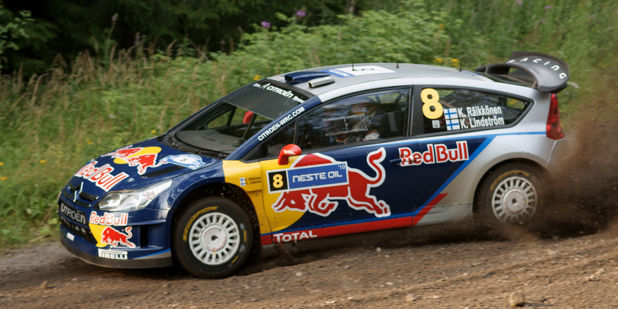 Kimi Räikkönen driving at Laajavuori special stage, Rally Finland 2010.